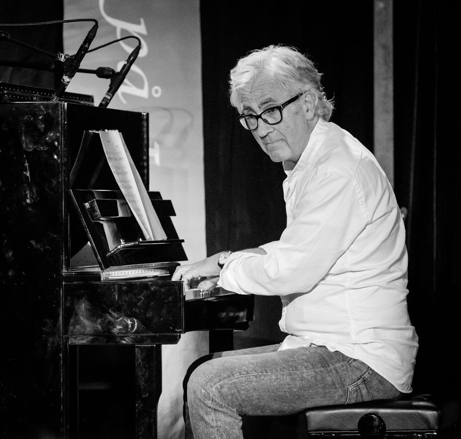 Helge Iberg with Bendik Hofseth at the stage at Thon Hotel Jølster. The concert was part of Jazz på Jølst and took place at Skei on 13. October 2017. Lineup: Bendik Hofseth (saxophone), Helge Iberg (piano), Mats Eilertsen (double bass), Audun Kleive (drums) and Bård Vegard Solhjell (introduction). Introduction by Bård Vegard Solhjell.